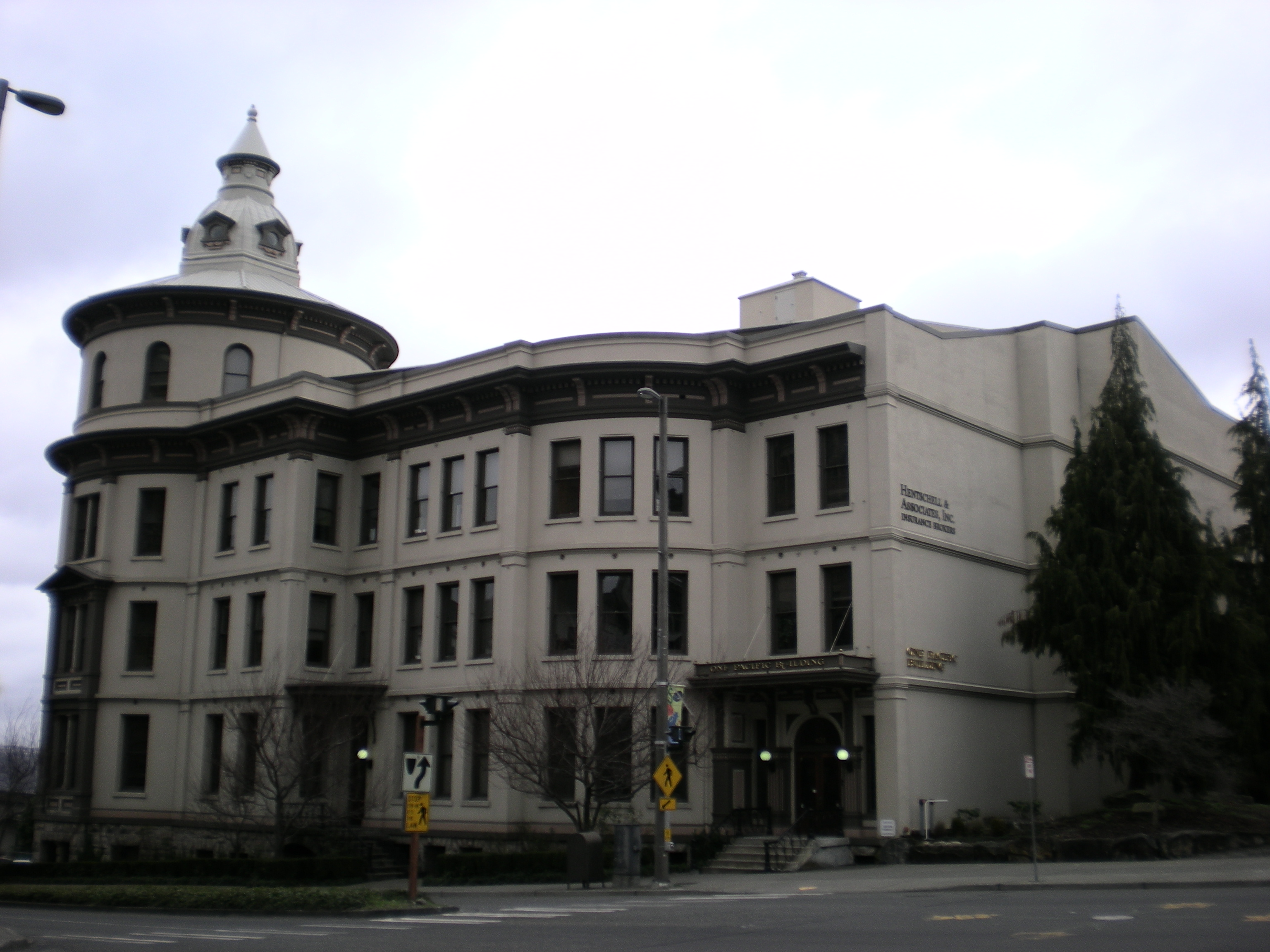 The Northern Pacific Office Building in Tacoma, Washington. On the National Register of Historic Places both in its own right and as part of the Old City Hall Historic District.